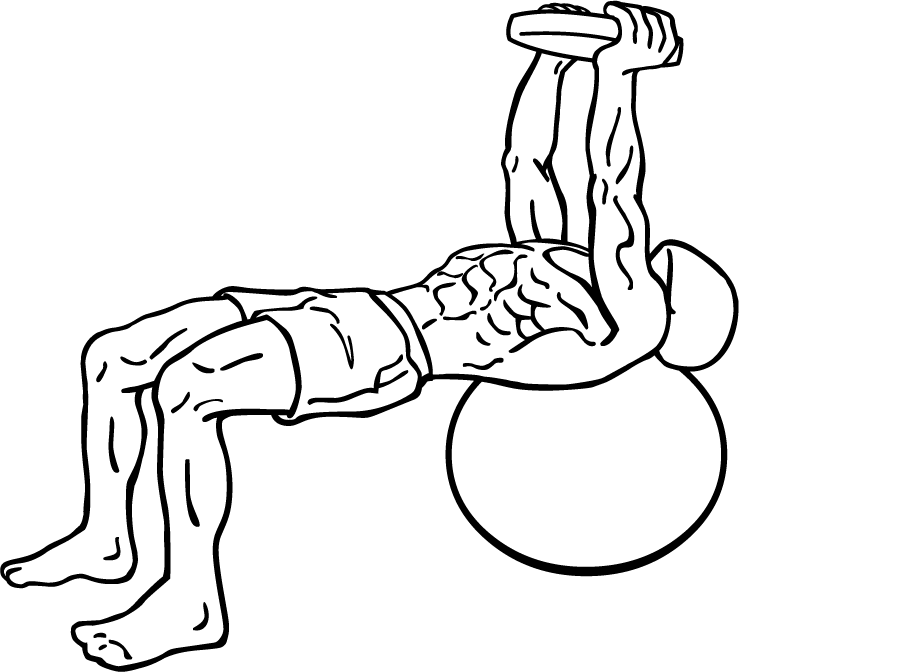 an exercise of upper back